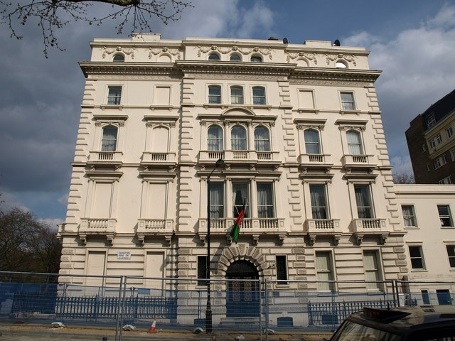 Afghan Embassy